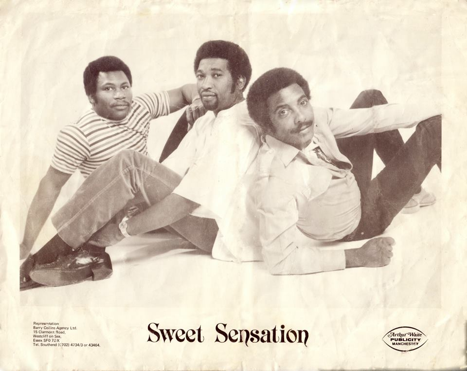 Sweet Sensation Publicity Photo of Original Founding Members - including Delroy Drummond